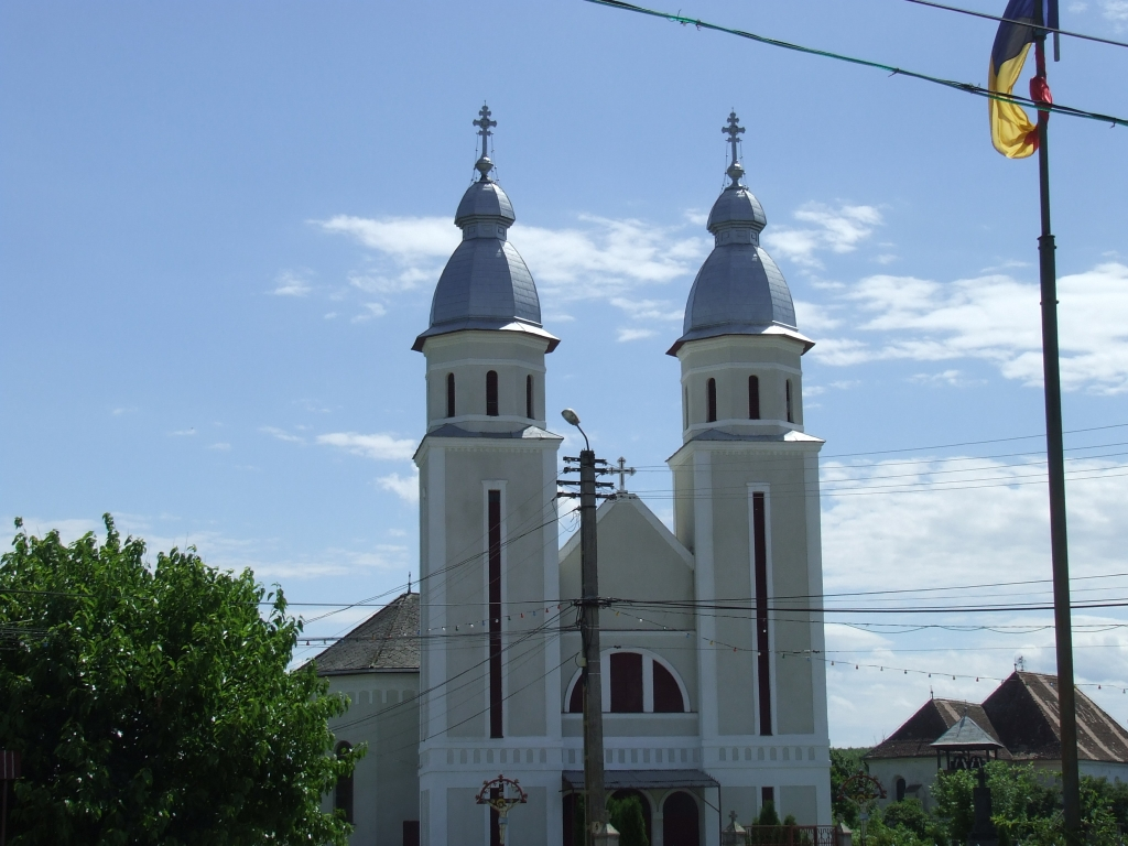 Orthodox Church in Bonţida, Cluj County, Romania